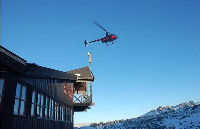 Installing Juvasshytta mobile base station, Juvasshytta in Lom municipality (Oppland, Norway)